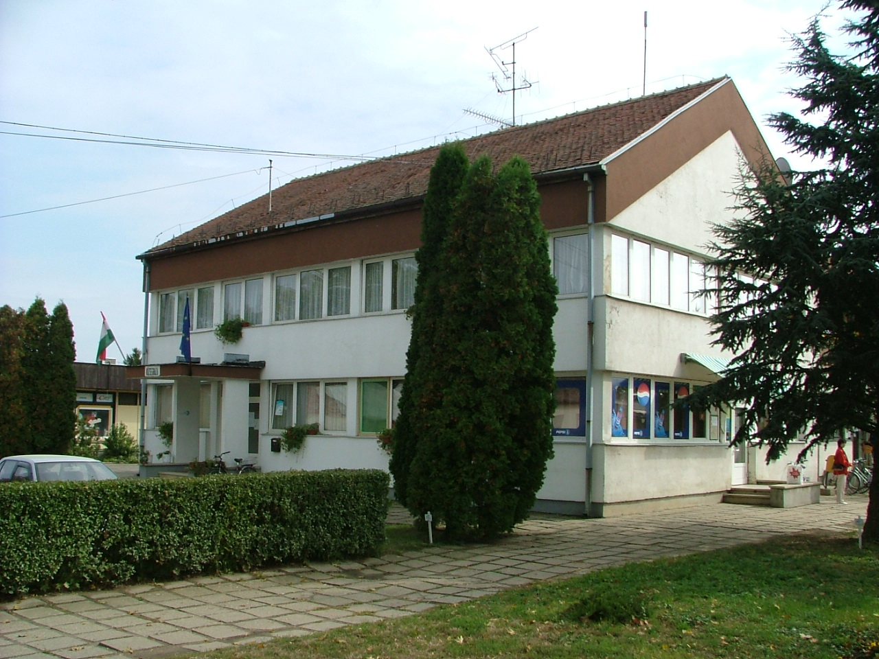 Sopronhorpács the city hall